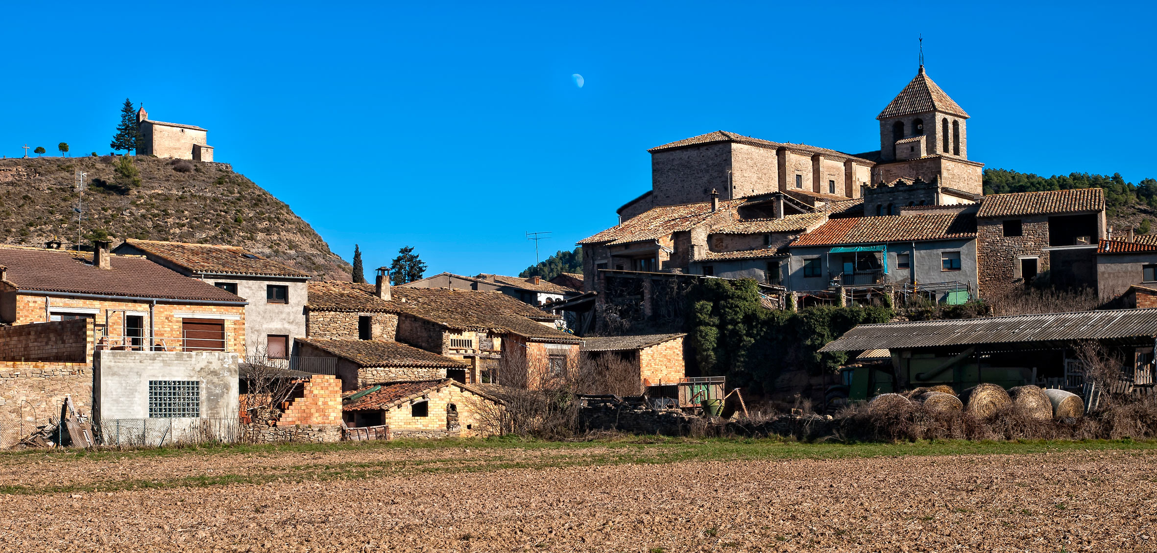 General landscape of Oristà (Catalonia, Spain)